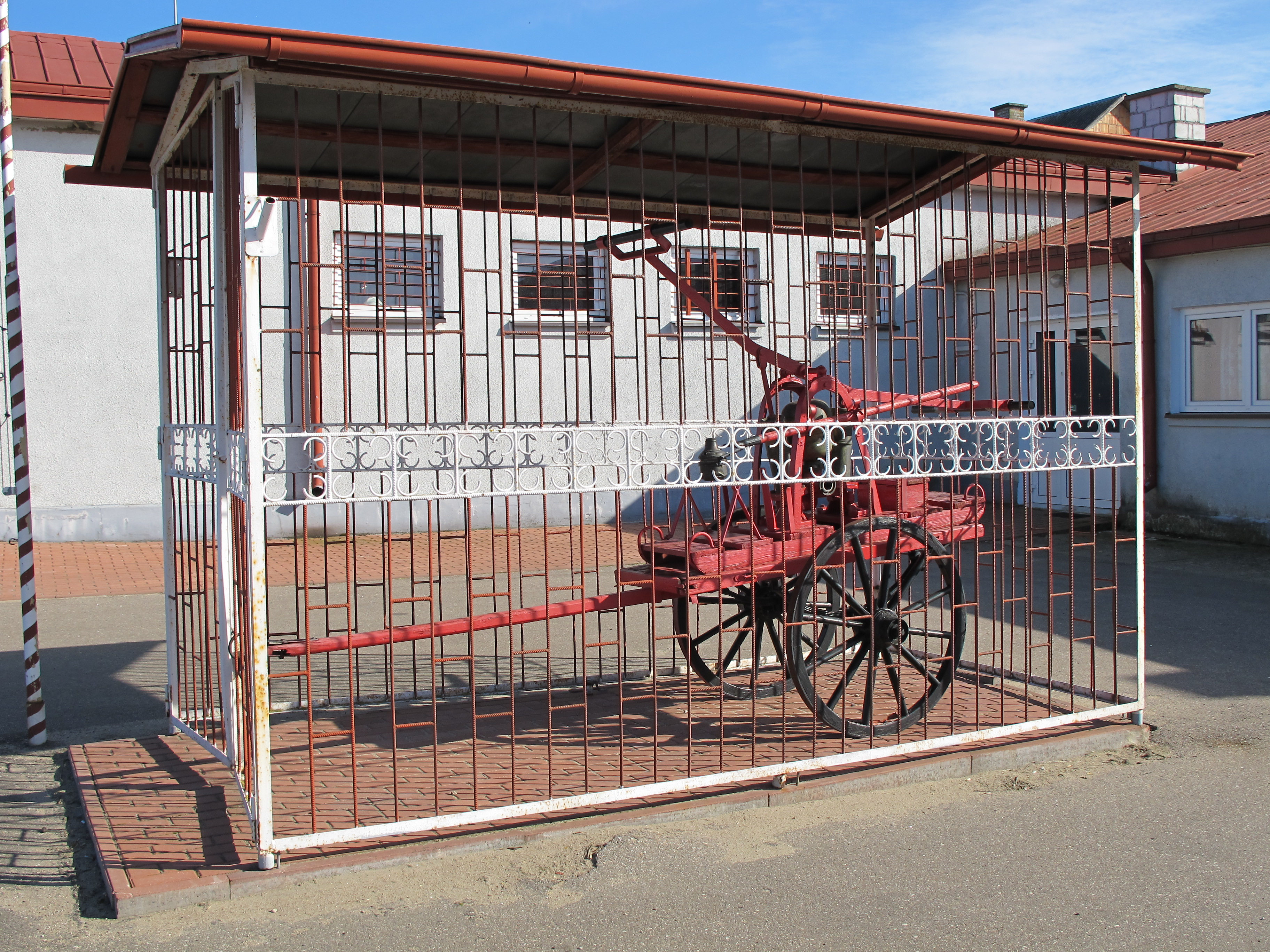 Old fire pump / fire engine by the Volunteer Fire Dept. fire station in Chodory, gmina Turośń Kościelna, podlaskie, Poland